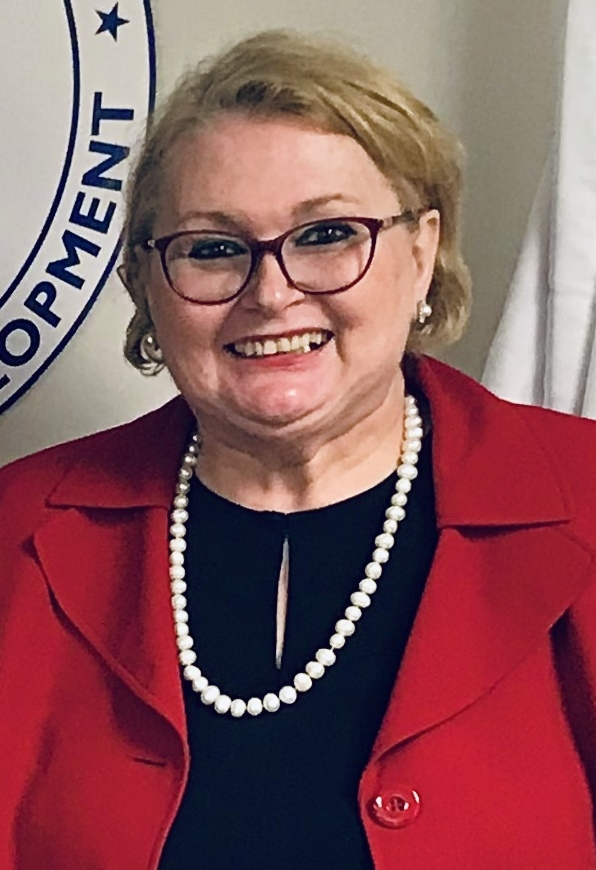 As @USAID Deputy Administrator @USAIDBGlick visits #BiH, I met with Foreign Minister Bisera Turkovic to discuss the agency's efforts to strengthen democratic institutions and boost enterprise-driven economic growth.